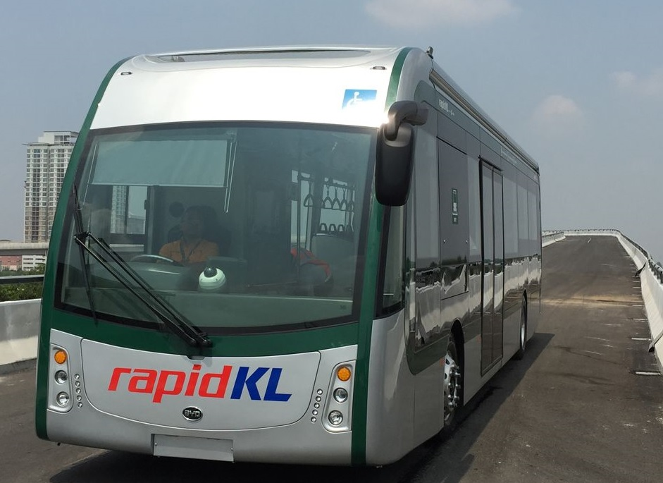 RapidKL electric bus approaching SB5 SunU-Monash station from SB6 South Quay station.